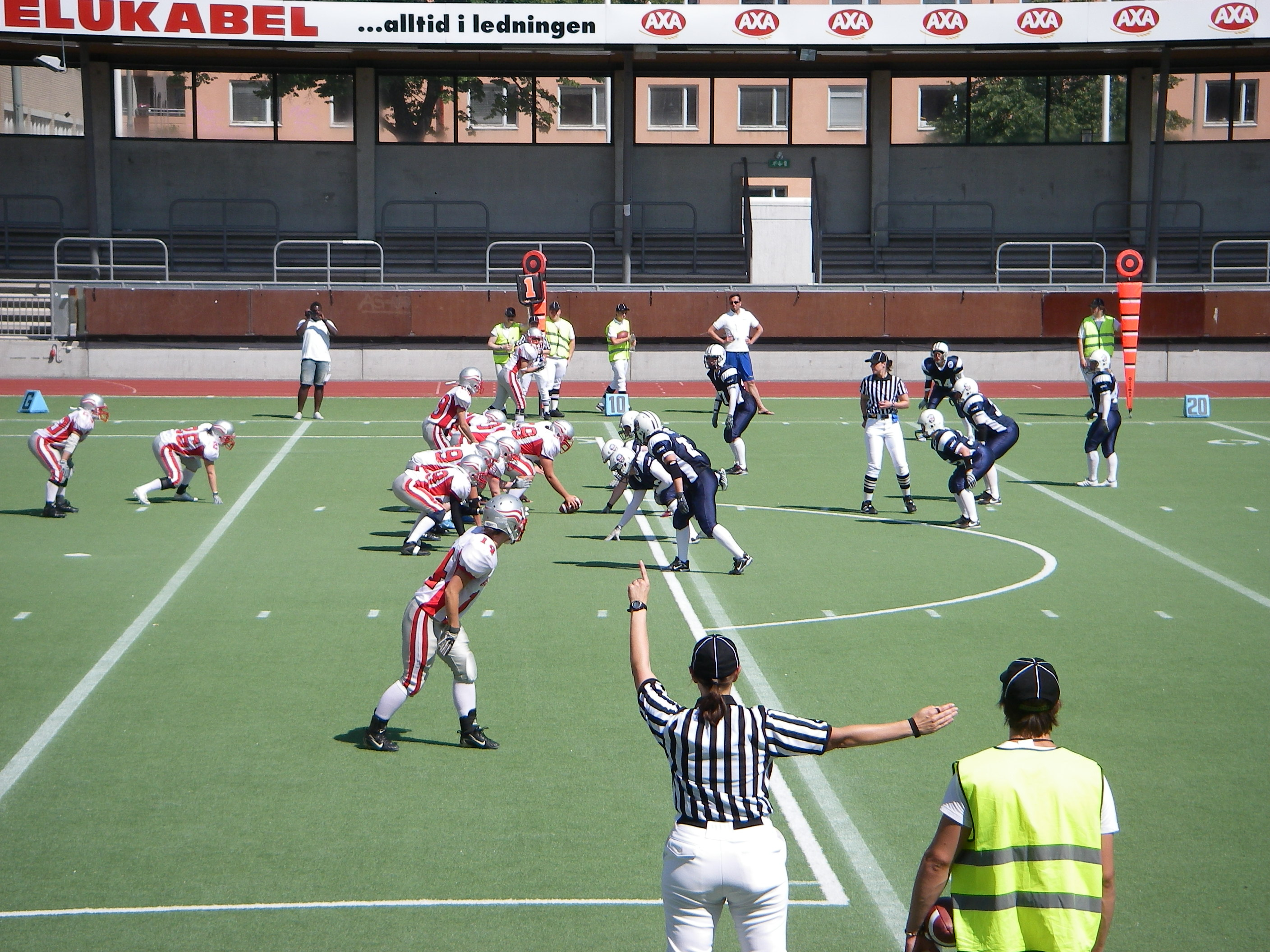 Game between Finland and Austria in the 2010 IFAF Women's World Championship. The game was played at Zinkensdamm in Stockholm, Sweden and ended with a 50-16 victory for the Finnish team.